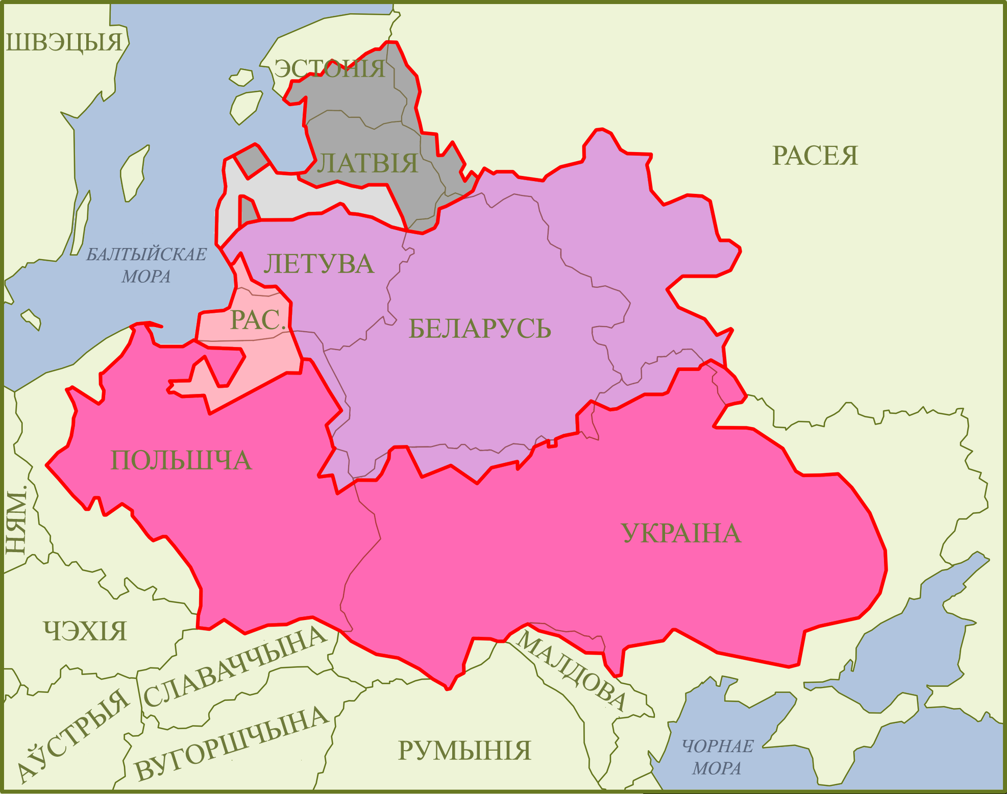 Polish-Lithuanian Commonwealth (1619) LEGEND: Kingdom of Poland Duchy of Prussia, Polish fief Grand Duchy of Lithuania Duchy of Courland, Lithuanian fief Livonia based on [1]